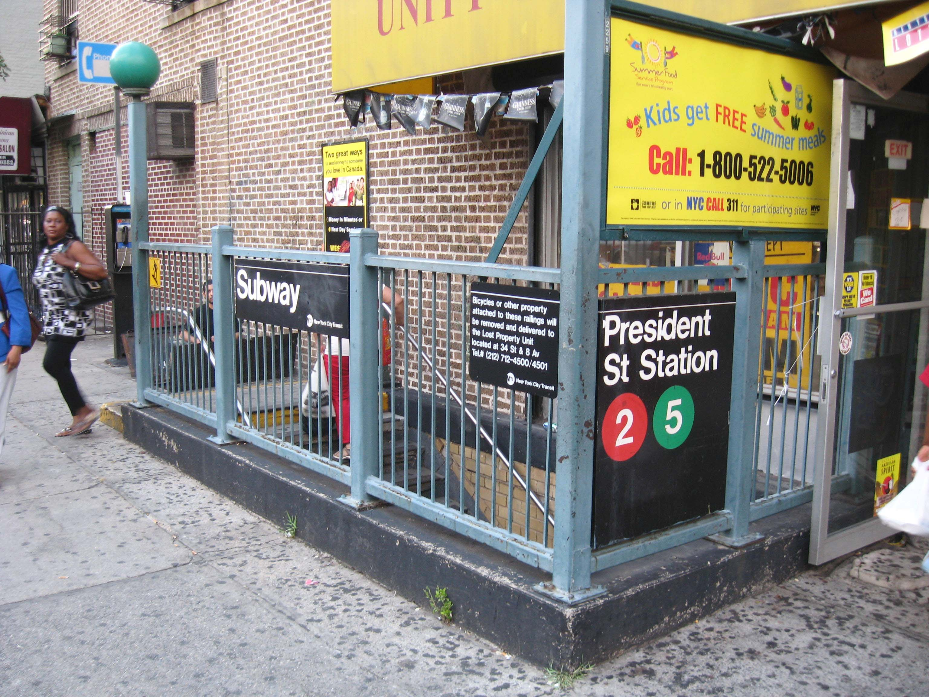 Looking northwest at western street stair of President Street (IRT Nostrand Avenue Line) on a sunny early evening